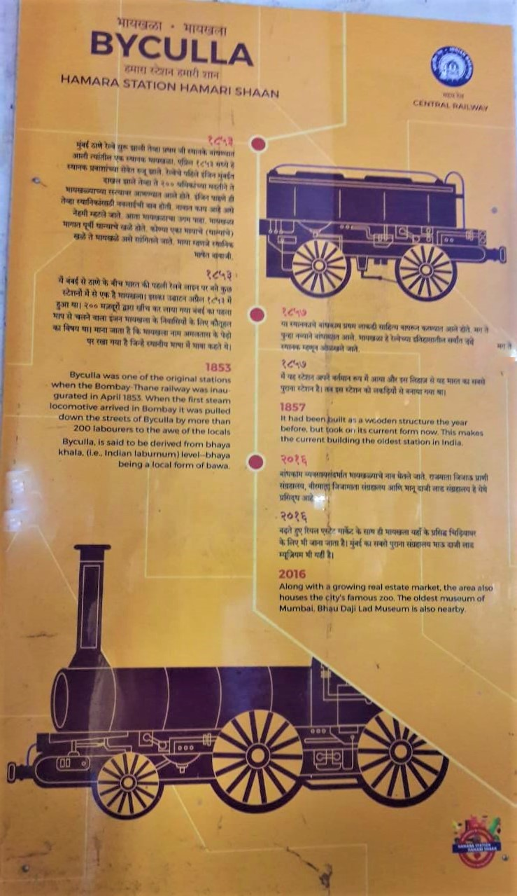 The Information Banner at Byculla Railway Station, Mumbai, India.